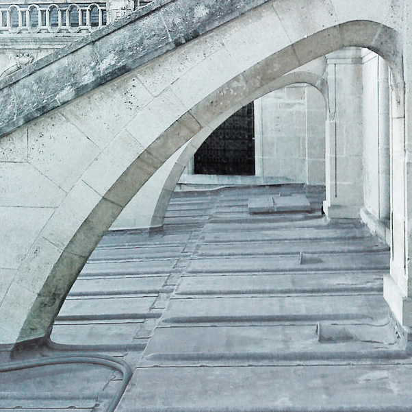 Lead roofing under flying buttress - cathedral Notre-Dame du Havre.